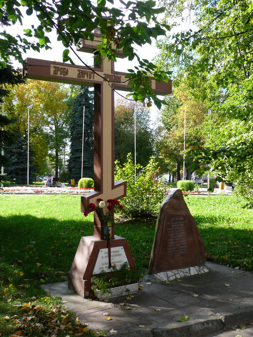 An Orthodox cross marking the location of the Saviour Cathedral in Tver (it was demolished by the Bolsheviks)